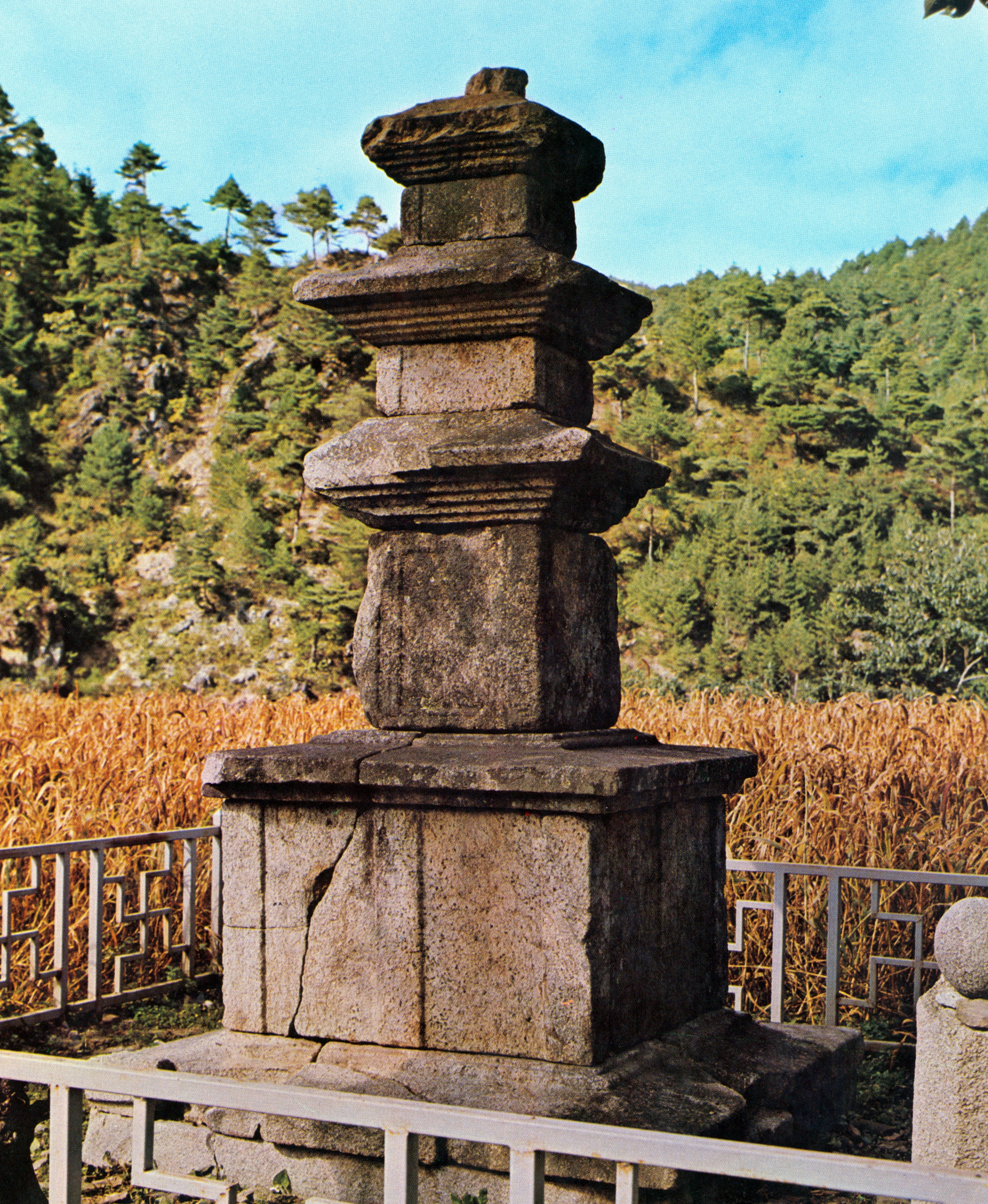 Three-story Stone Pagoda at Gusan-ri in Uljin, Korea